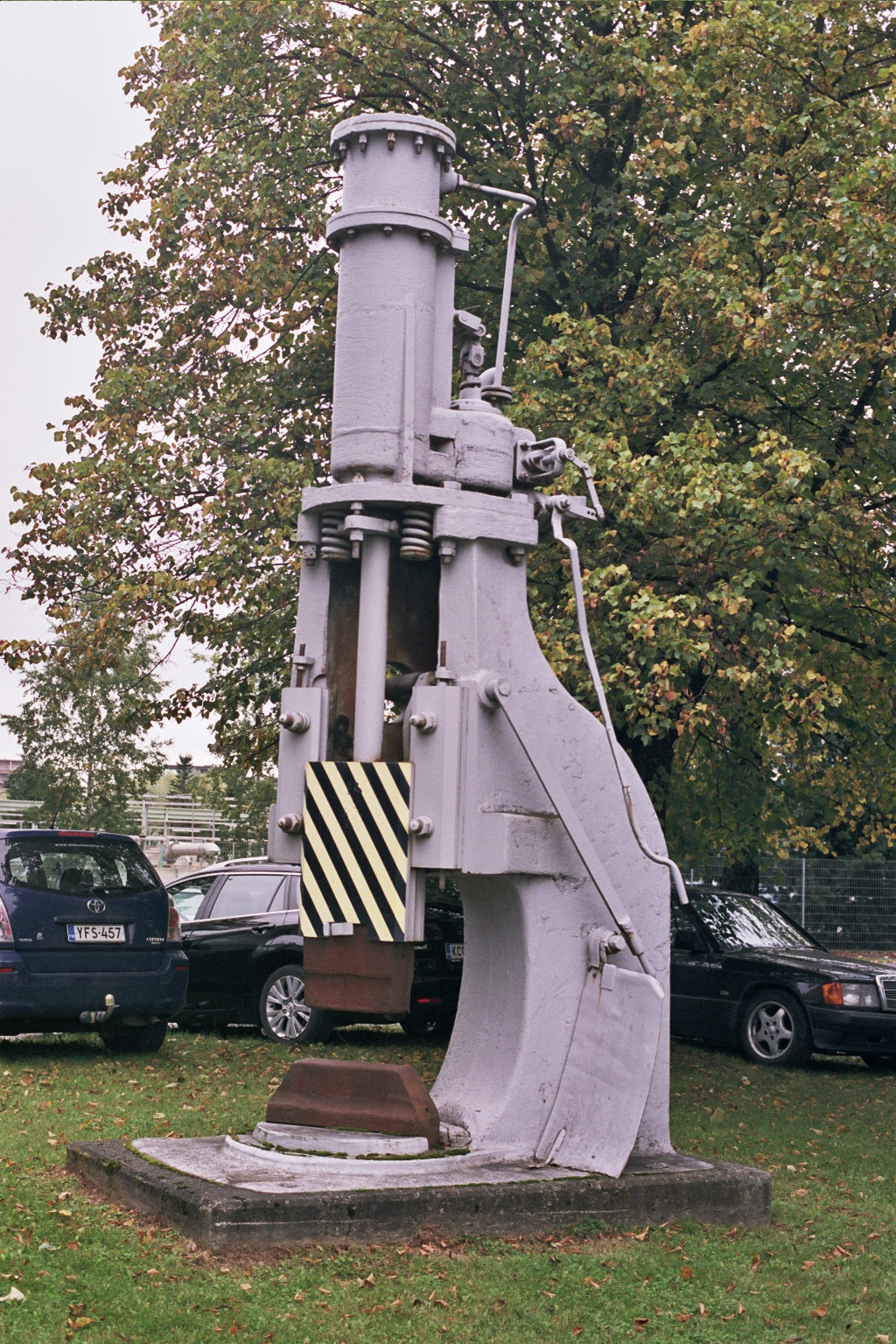 A steam hammer (roughly 4–5 meters high?) in Hatanpää, Tampere, Finland. It was used by the forging plant of the nearby Lokomo factory in 1920–1985. Lokomo donated it to the city of Tampere in 1985.